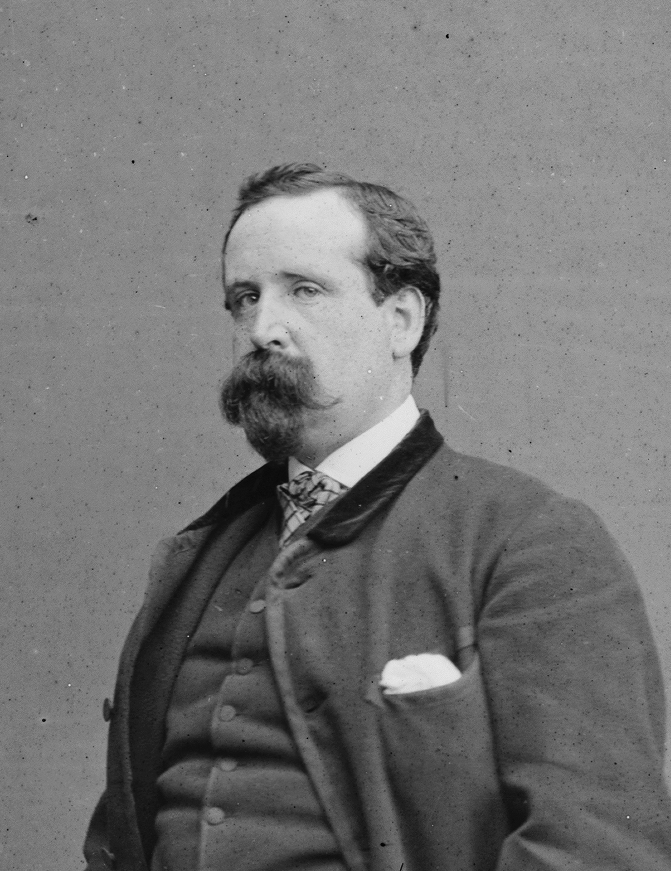 Frank Vizetelly, circa 1860-1865. Brady-Handy photograph collection, Library of Congress, Prints and Photographs Division.